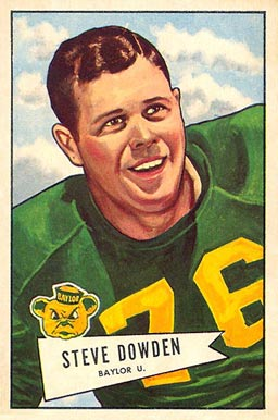 American football player Steve Dowden on a 1952 Bowman Large card.